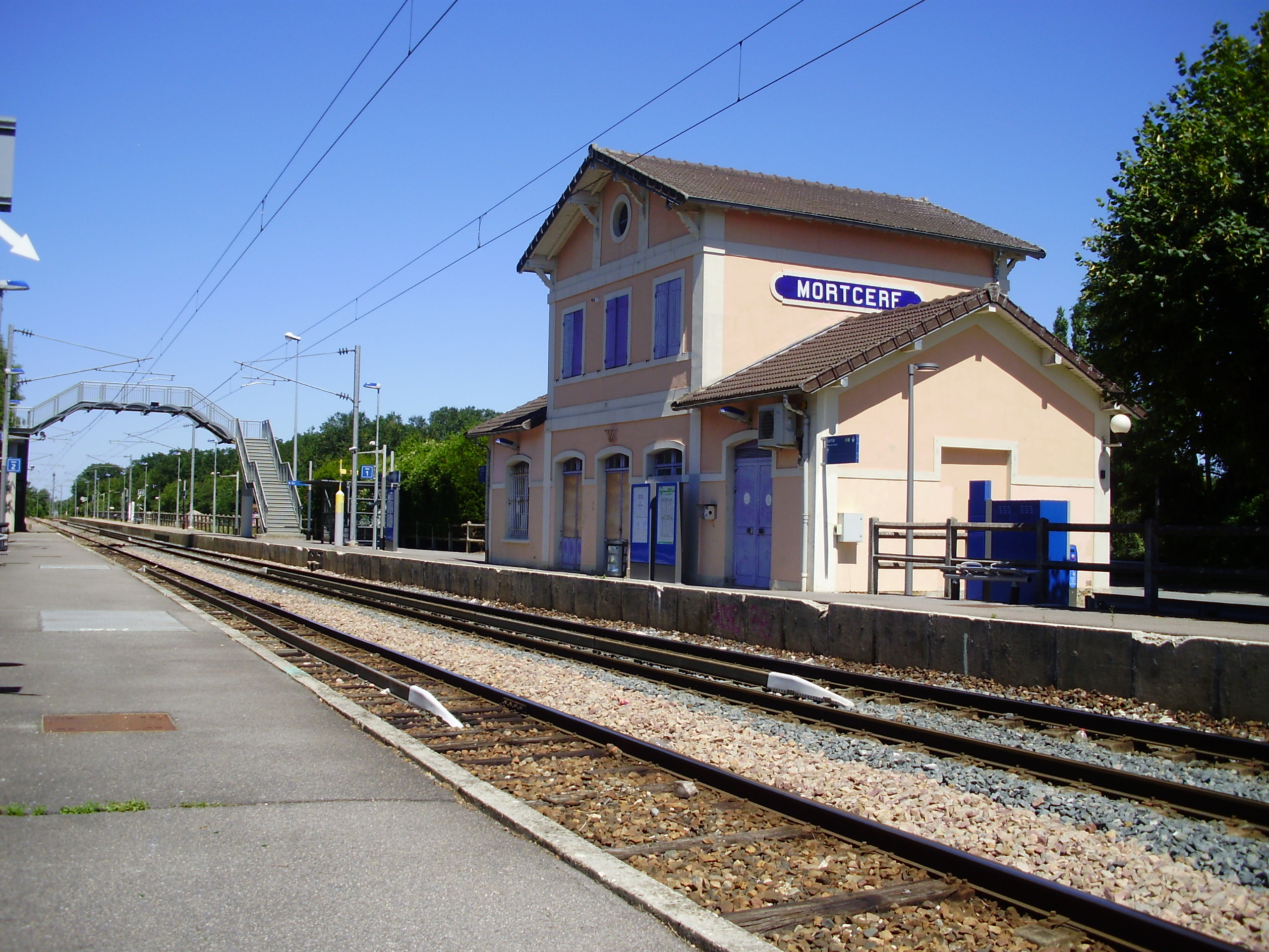 Mortcerf station, Seine-et-Marne, France, seen from the opposite platform